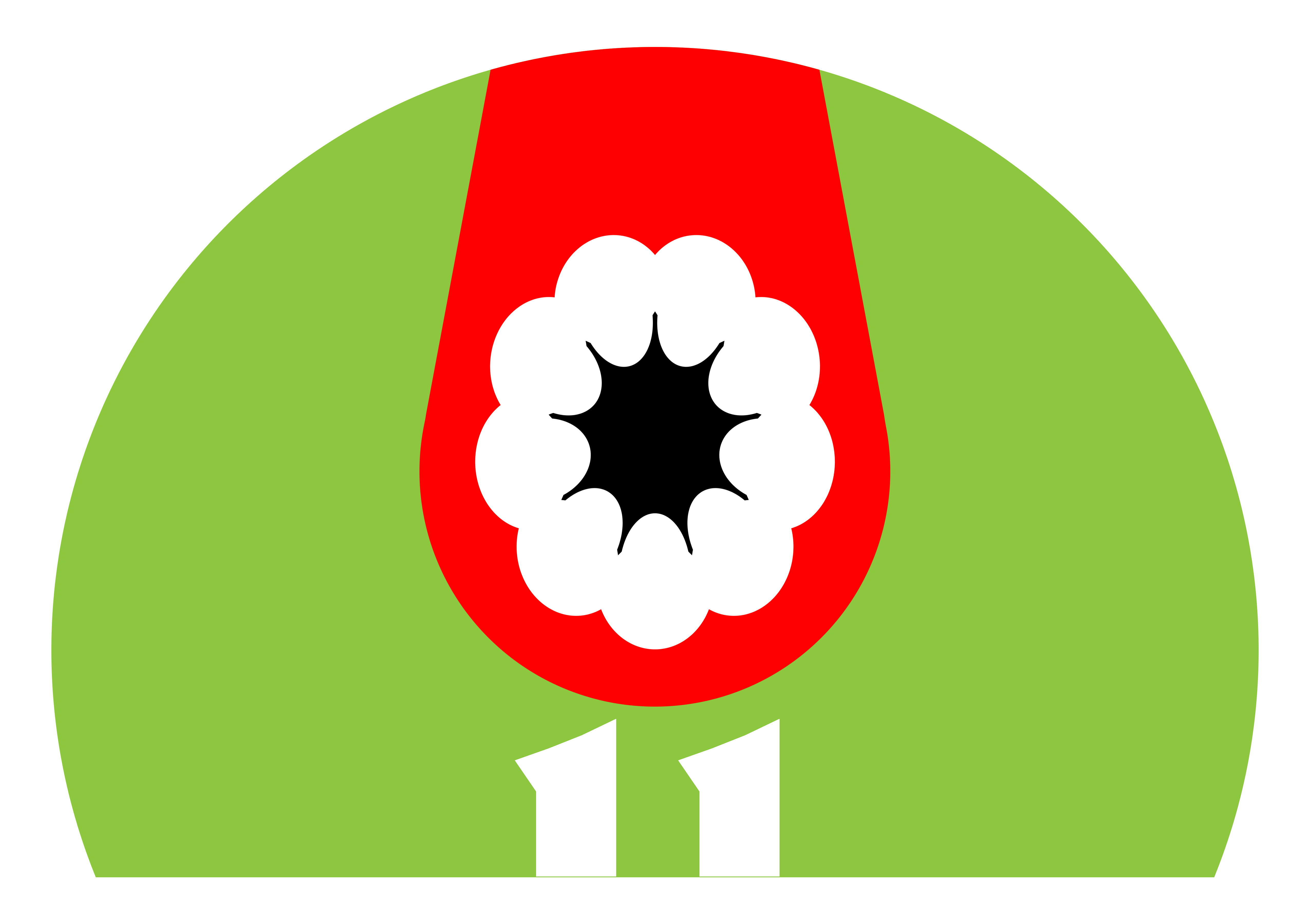 11th Philippine Division emblem from 1941-42, possibly not developed until late in that period or just after; color versions of this are a matter of record, and bronze version(s) of these emblems are seen on monuments around the Philippines.